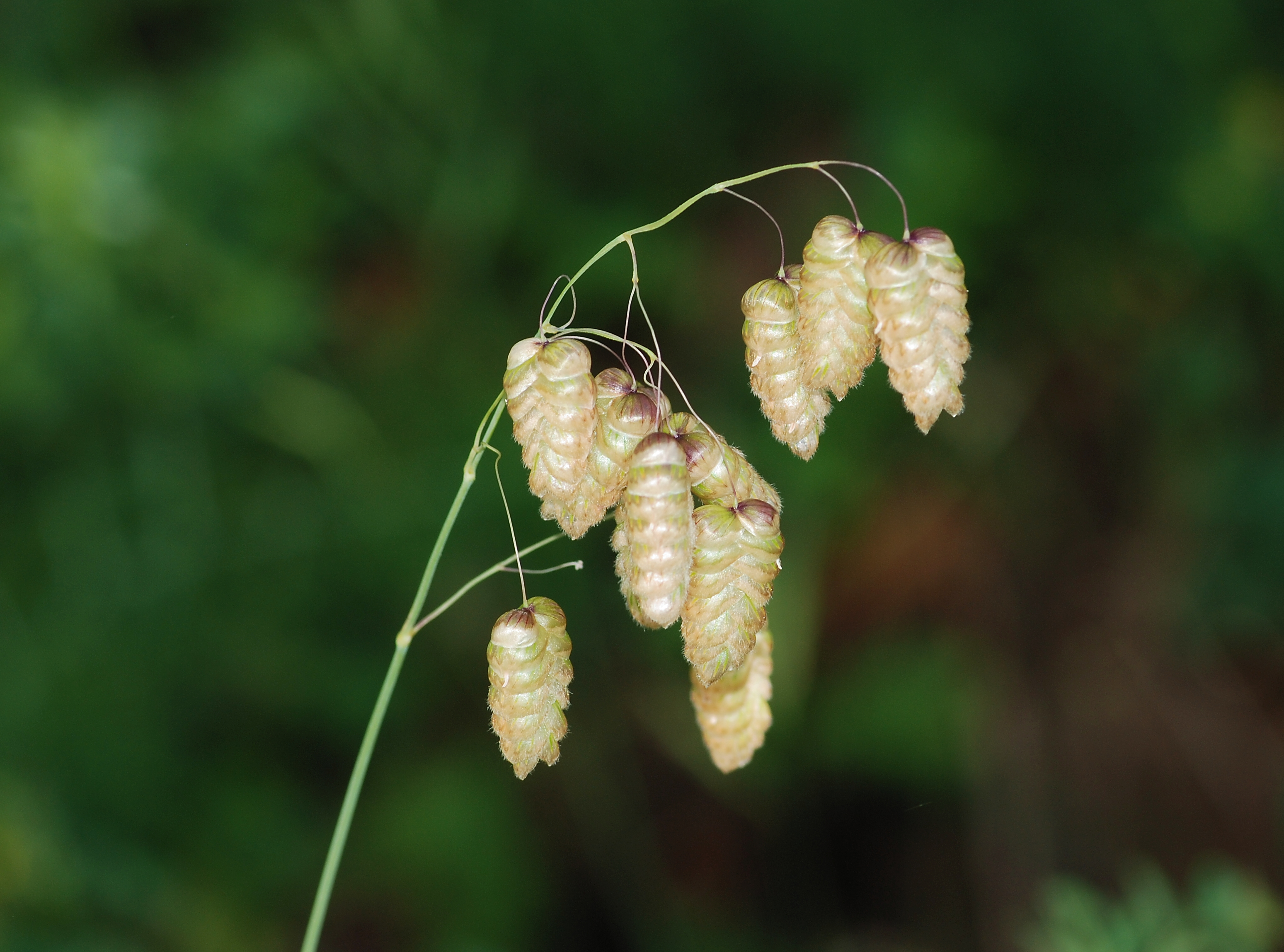 Inflorescence (panicle) of a Large Quaking Grass (Briza maxima). Each inflorescence comprises various spikelets and each spikelet has various flowers.